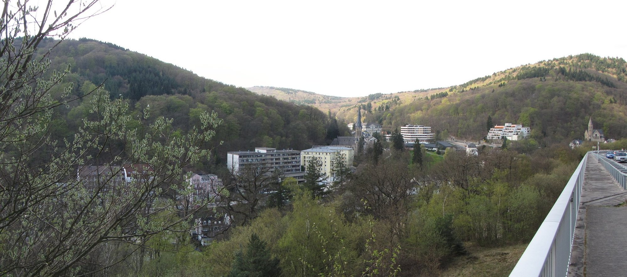 Schlangenbad